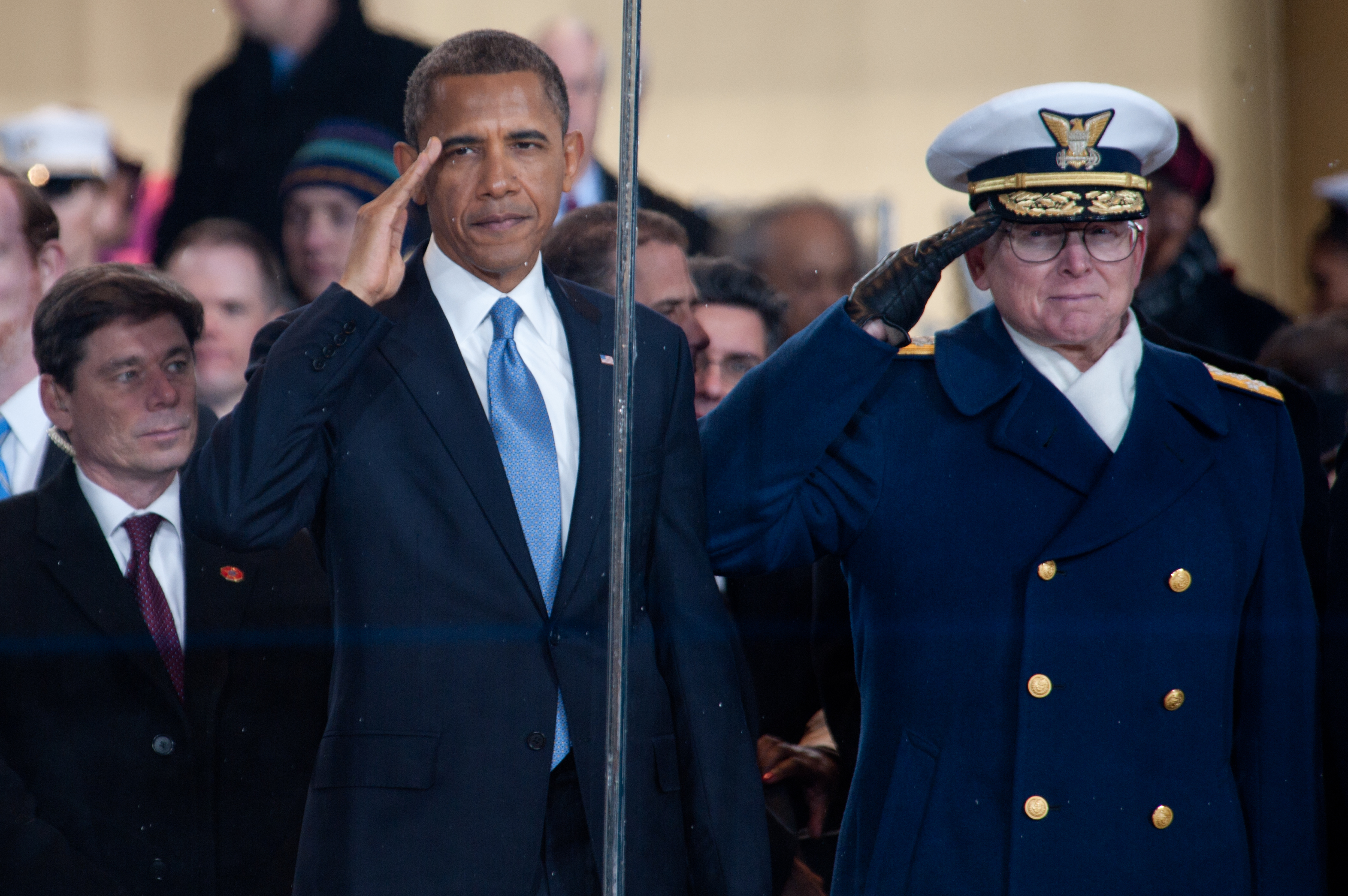 President Barack Obama salutes U.S. Coast Guard members passing by the inauguration parade official review stand. The procession of more than 8,000 people that started at Constitution Avenue continued down Pennsylvania Avenue to the White House included ceremonial military regiments, citizen groups, marching bands and floats. The president, vice President, their spouses and special guests then review the parade as it passes in front of the presidential reviewing stand. The stadium-style stage is erected for the inauguration on the west front of the Capitol. It has more than 1,600 seats for members of Congress, Supreme Court justices, governors, foreign ambassadors, military leaders, Cabinet members, former presidents and the families of President Barack Obama and Vice President Joe Biden. The 57th Presidential Inauguration was held in Washington, on Monday, Jan. 21, 2013. The inauguration included the presidential swearing-in ceremony, inaugural address, inaugural parade and numerous inaugural balls and galas honoring the elected president of the United States. During the 10-day inaugural period, approximately 6,000 National Guard personnel from more than 30 states and territories worked for Joint Task Force-District of Columbia, providing traffic control, crowd management, transportation, communication, medical and logistical support as well as marching in the inaugural parade. More than 13,000 active duty, National Guard and Reserve military members were involved in the inauguration. The presidential inaugural parade included members from all branches of the armed forces of the United States. Since 1789, the U.S. armed forces have participated in this important American tradition honoring our commander in chief. The parade is organized by the Joint Task Force-National Capital Region, and participants are selected by the Presidential Inaugural Committee. (Official U.S. Air Force photo by Technical Sgt. Eric Miller/ New York Air National Guard)